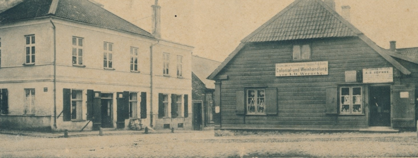 Crossing of Kauba, Pikk & Väike-Turu streets in Viljandi, 1913